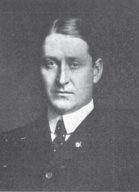 Ohio politician named Edward L. Taylor, Jr.